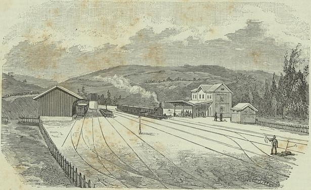 Drawing of the Dois Portos Railway Station, in Portugal, inaugurated on the 21st May 1887. This image was originally published in the Occidente magazine No. 318, of the 21st October 1887, and scanned by the Hemeroteca Municipal de Lisboa.